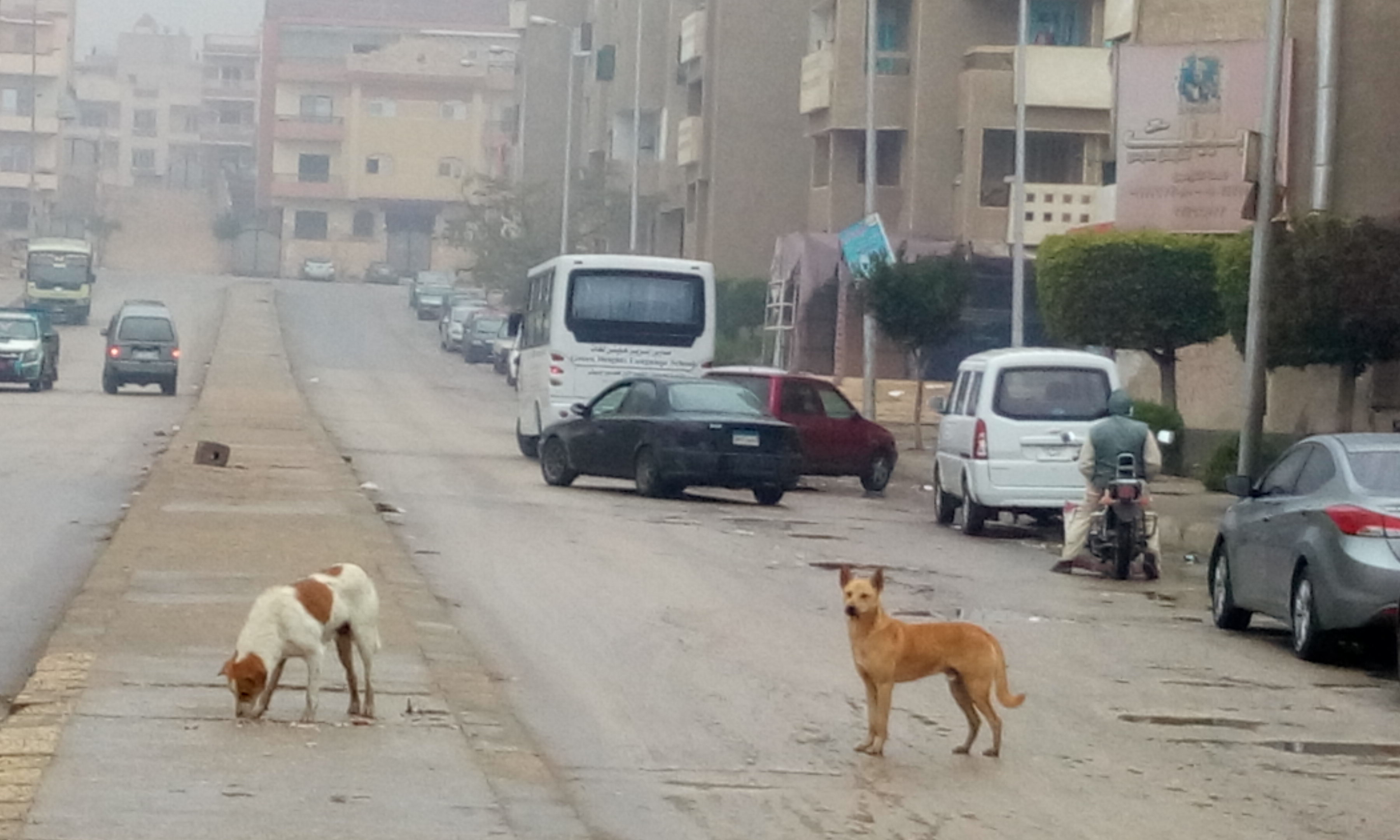 Dogs in First settelement ,New Cairo